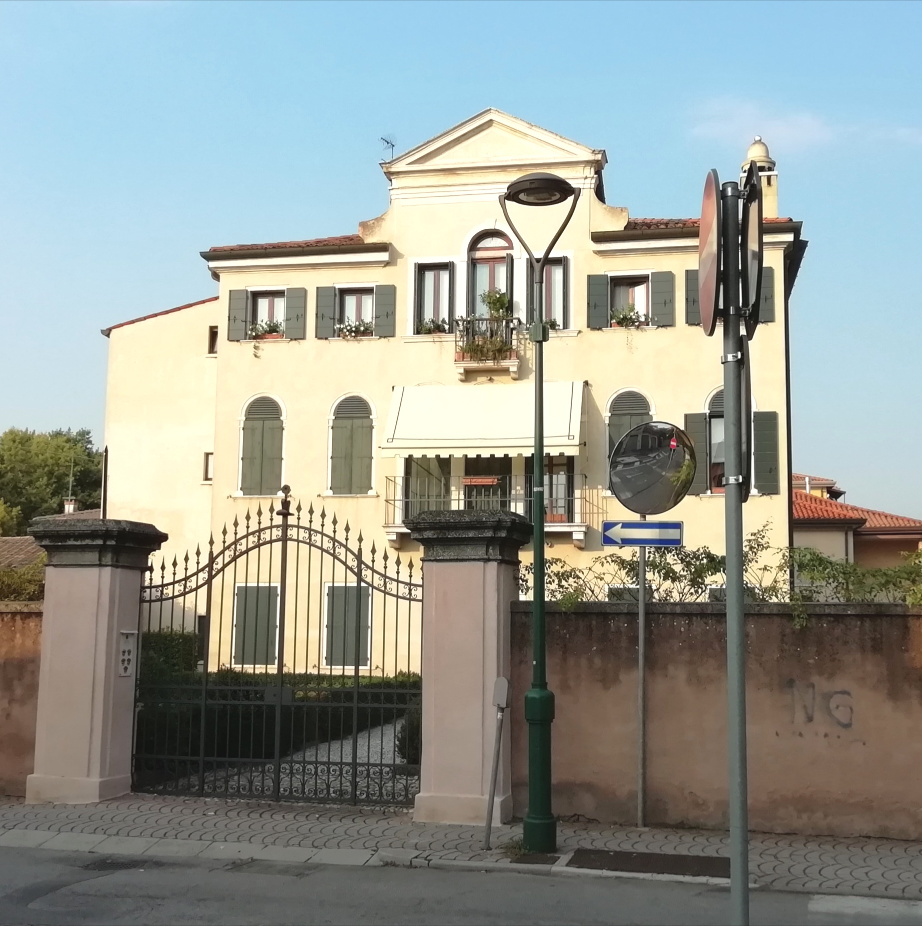 Front sight of Villa Paganello in Gazzera (Mestre Venice)